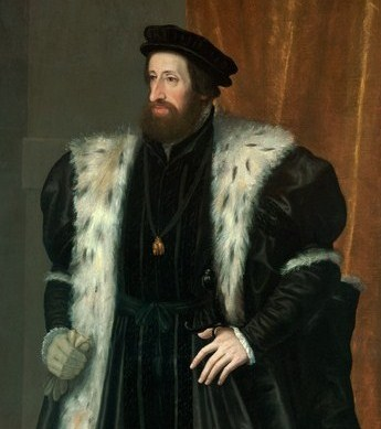 Painting of Hans Bocksberger der Ältere (1510–1561).